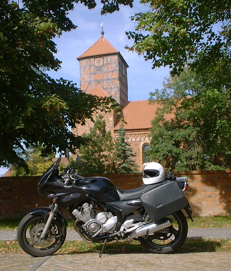 Church in Wulkow-Großwulkow in Saxony-Anhalt, Germany